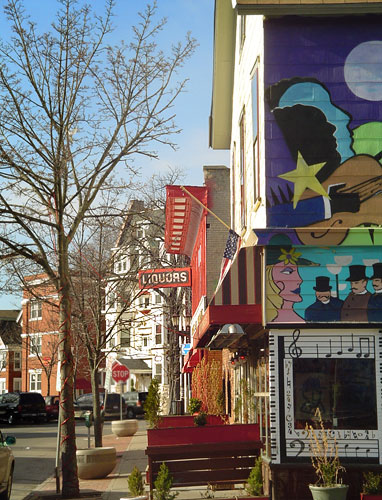 A photograph of Buffalo's Allentown district by David Coffee